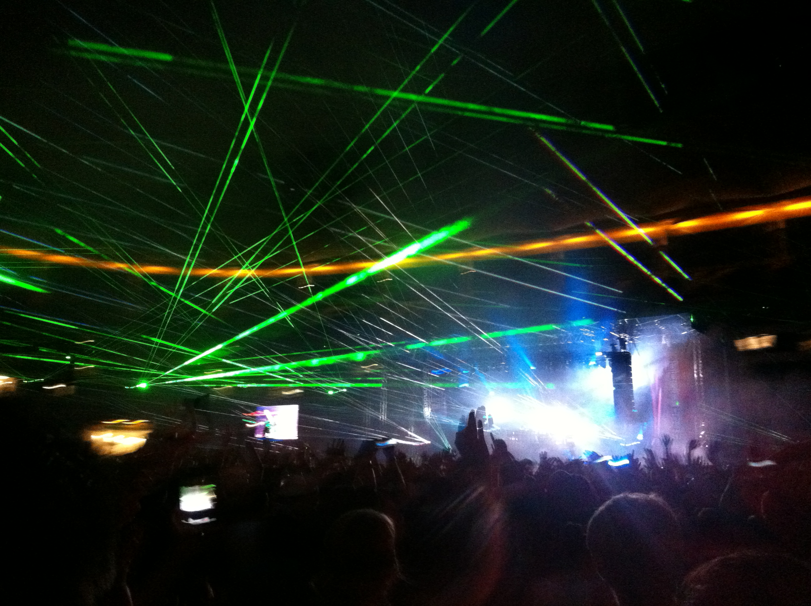 BigCityBeats World Club Dome Frankfurt 2013